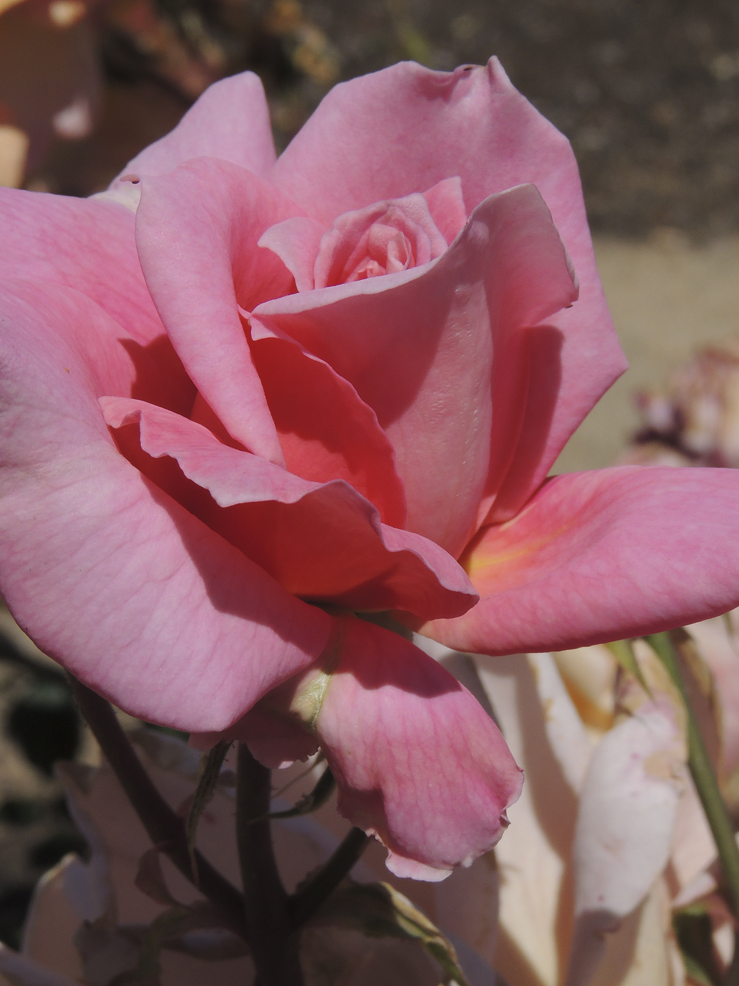 Rose 'Picture' Hybrid Tea McGredy 1932